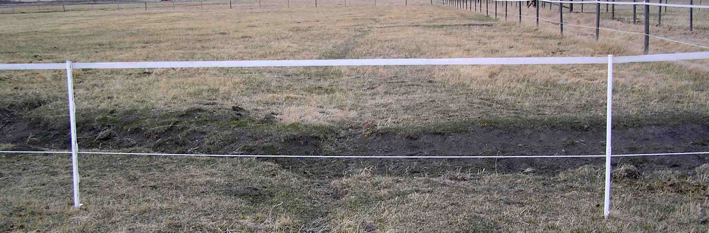 Temporary Electric fence made up of web tape with interwoven wire and electric cord, also a synthetic interwoven with metal. While plastic fence posts make this an easy to move fence line